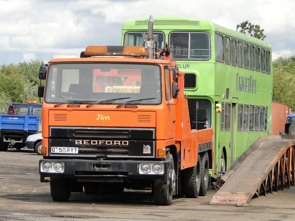 A 1988 Bedford TM recovery truck (reg. Q756 RYT) named "Jim"; chassis number KXX3QF0LW700167 and Detroit Diesel 8V71 engine number 8VA-654169. It belongs to BrightBus and is pictured at their depot in North Anston. Behind it is one of their imported tri-axle buses.